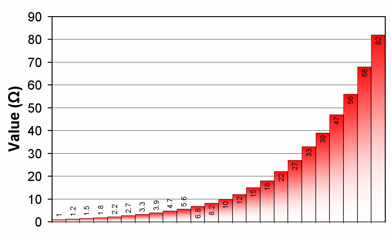 This is a graph of E12 resistor values, from 1 to 82. It shows the curve the series follows.